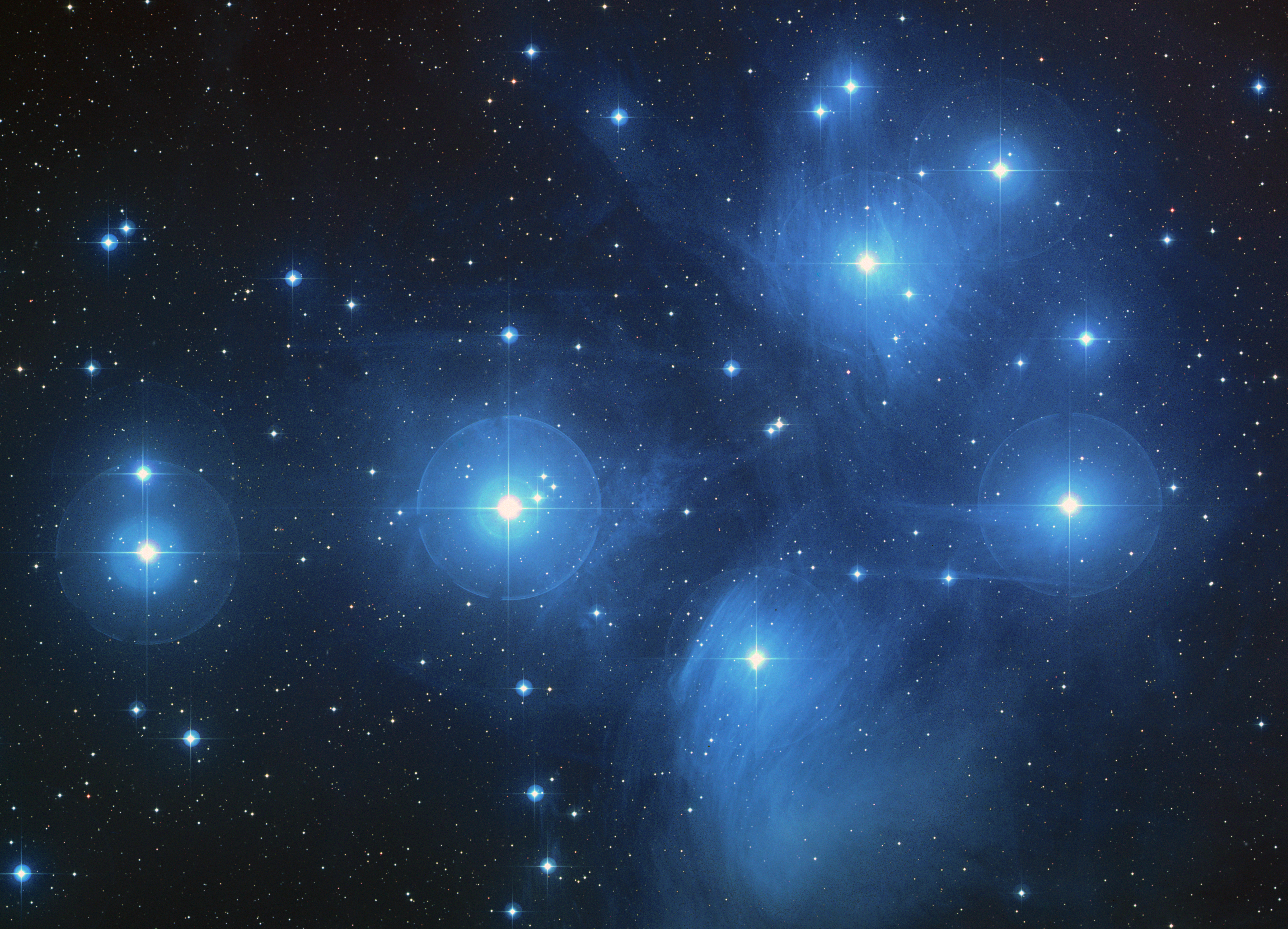 The Pleiades is an open cluster consisting of approximately 1,000 stars at a distance of 400 light-years (120 parsecs) from Earth in in the constellation Taurus. (It also known as "The Seven Sisters", or the astronomical designations NGC 1432/35 and M 45.)